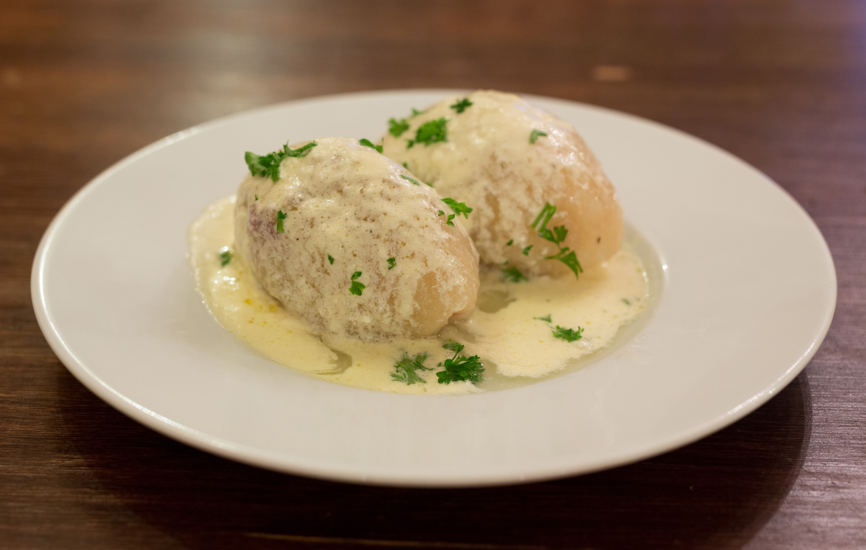 Cepelinai, or Zeppelins, taken at a restaurant in Vilnius, Lithuania.